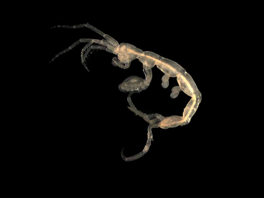 Caprellid amphipod, taken with Axiocam (Zeiss) camera mounted on a Zeiss Stemi C-2000 binocular microscope. This caprellid was sampled on the Belgian Continental Shelf in 1999.